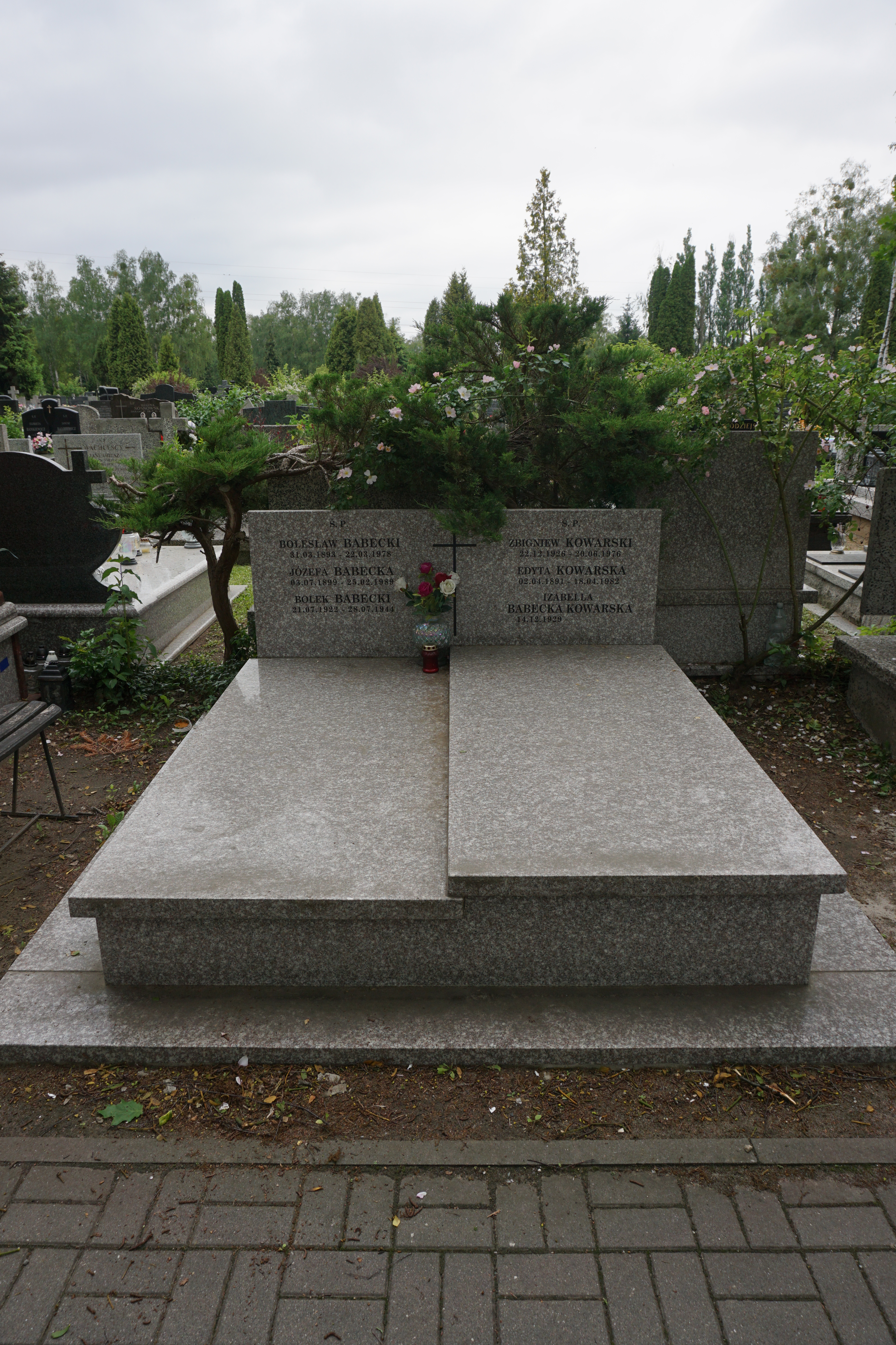 The grave of Bolesław Babecki at the North Municipal Cemetery in Warsaw (section E-XI-6, row 1, grave 5, 6)